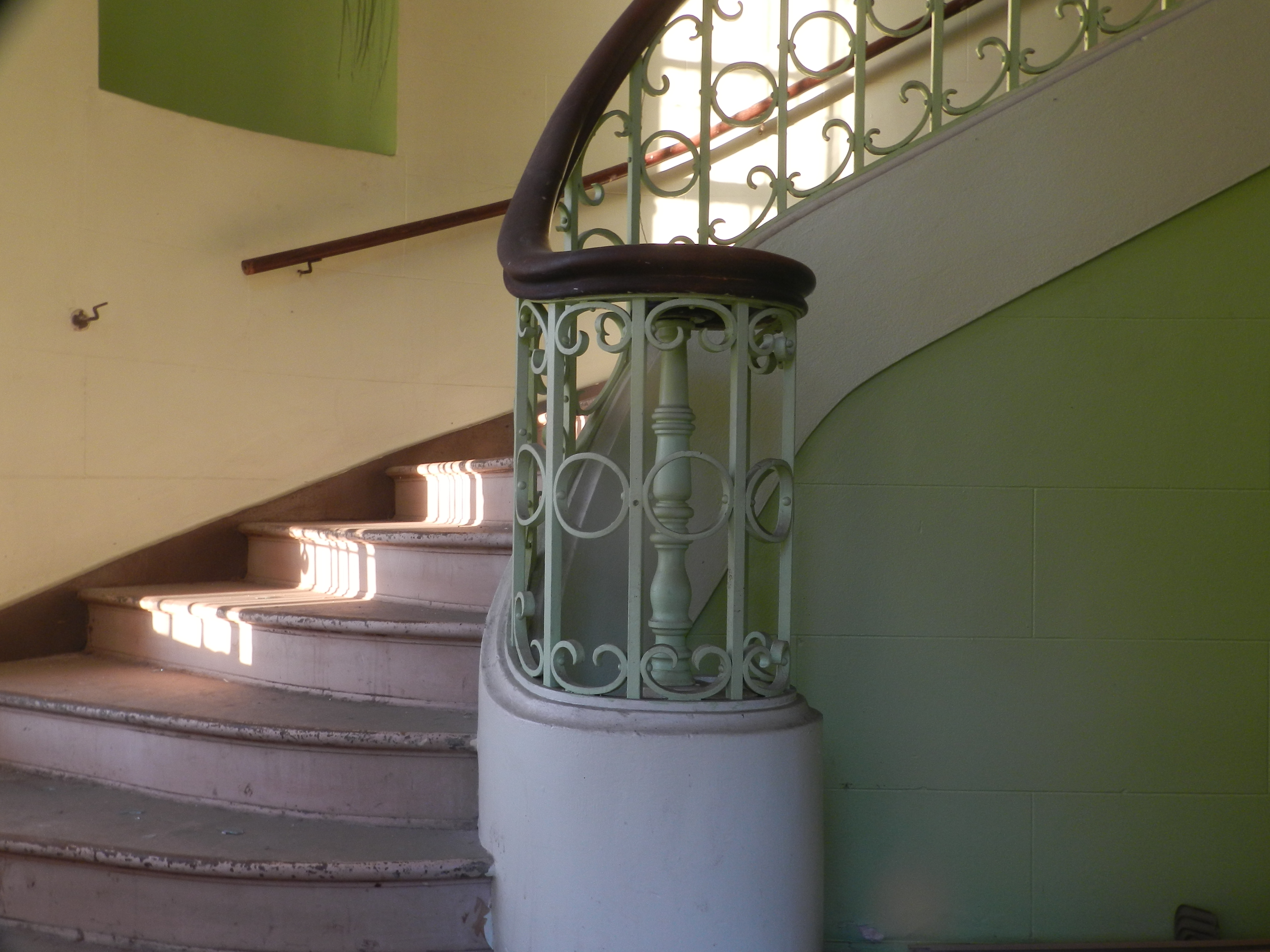 Hayward City Hall, original building, interior stairway, at Alex Giualini Plaza